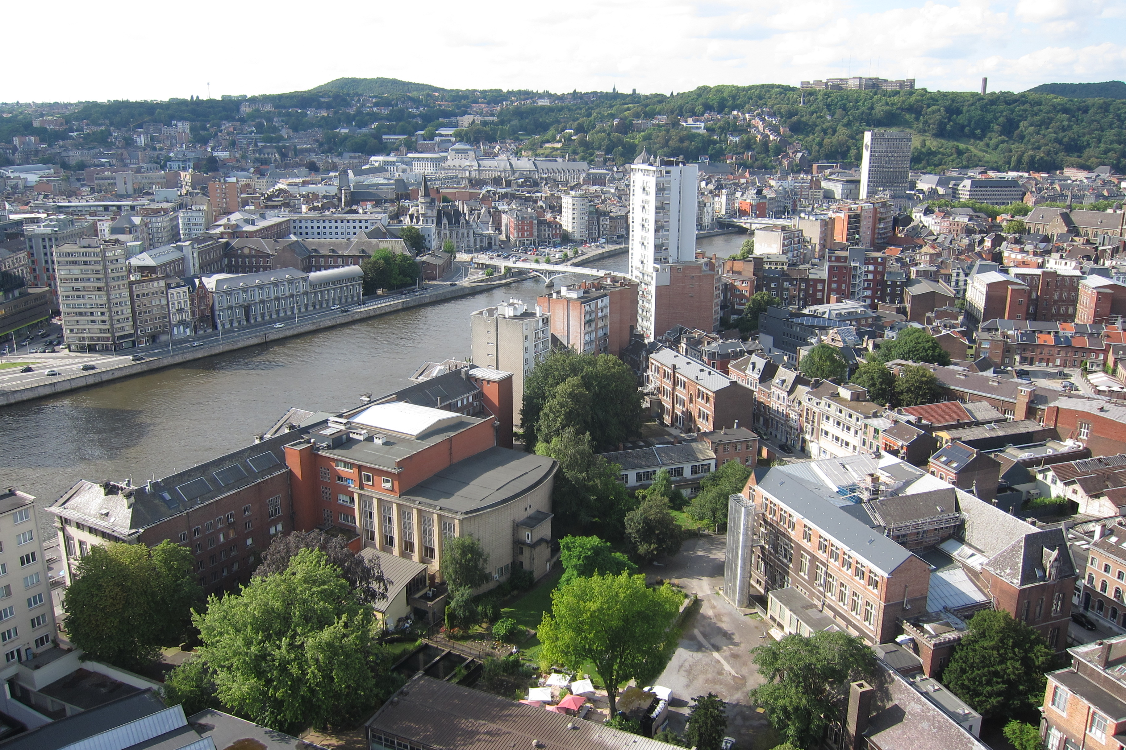 A view of Outremeuse in Liège as seen from the Tour Simenon